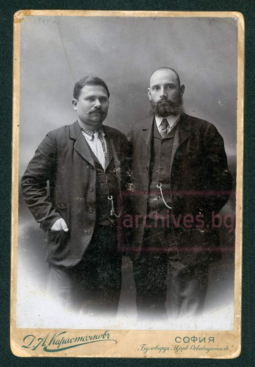 Chernopeev and Sandanski